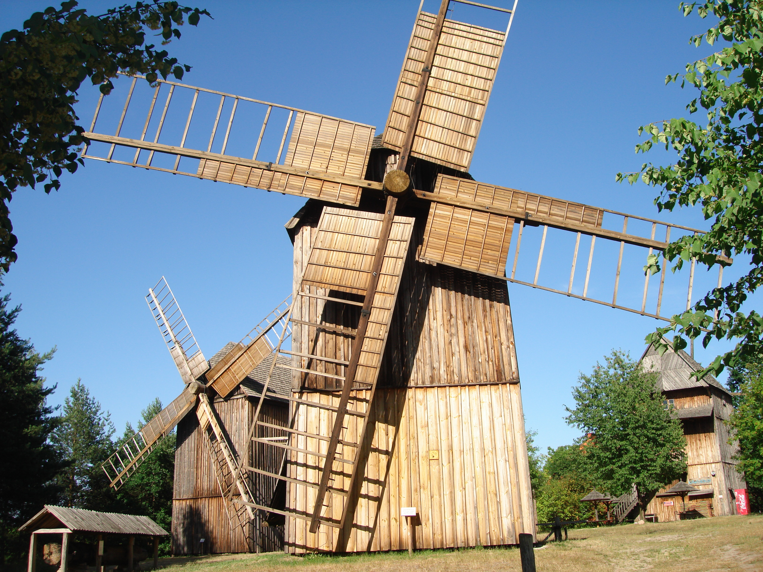 Open Air Village Museum in Radom